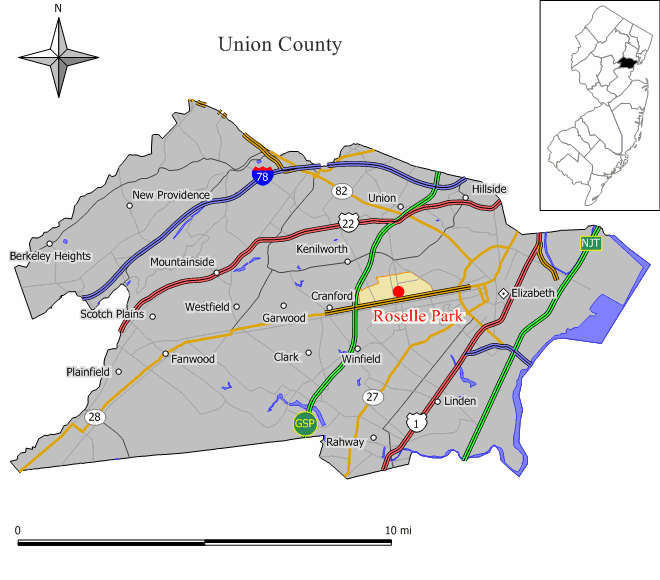 Source: Jim Irwin Original work by Jim Irwin, December 2005.